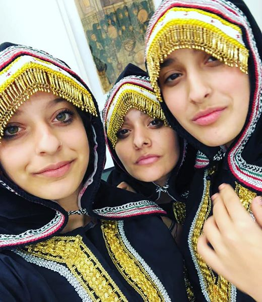 Traditional Yemenite Jewish garb, "Gargush"